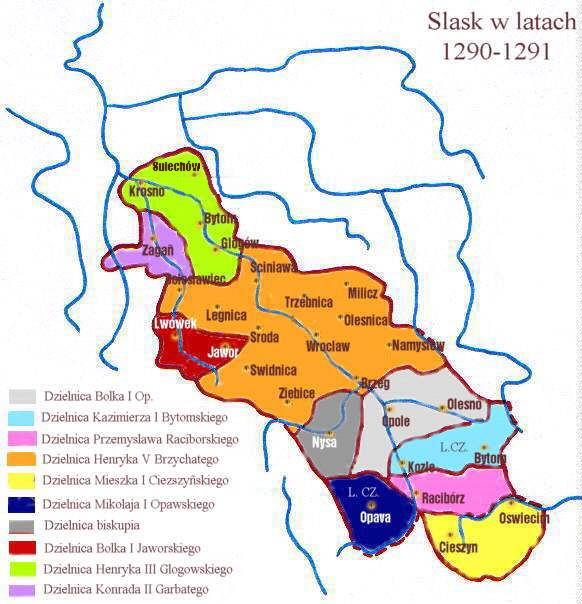 Map of Silesia 1290-1291